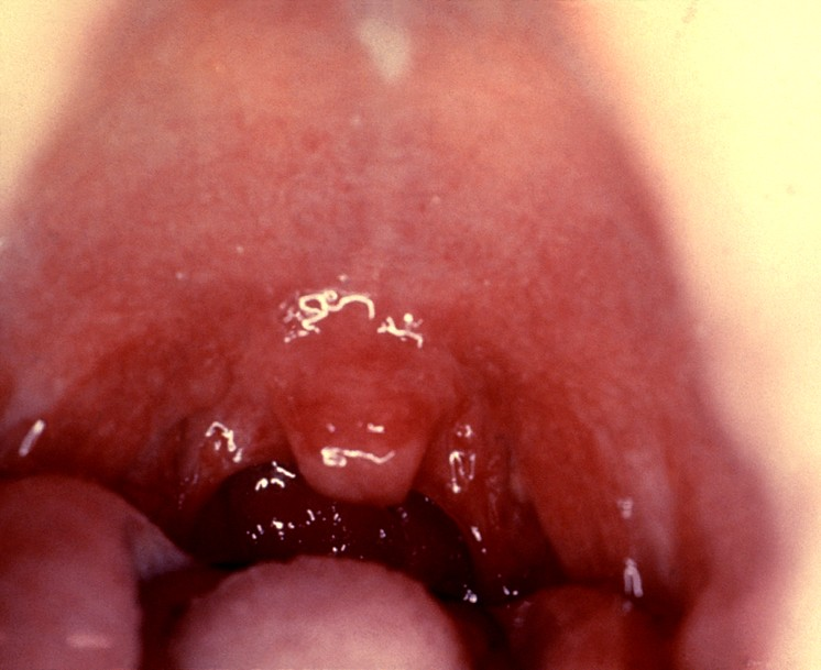 Tonsillitis